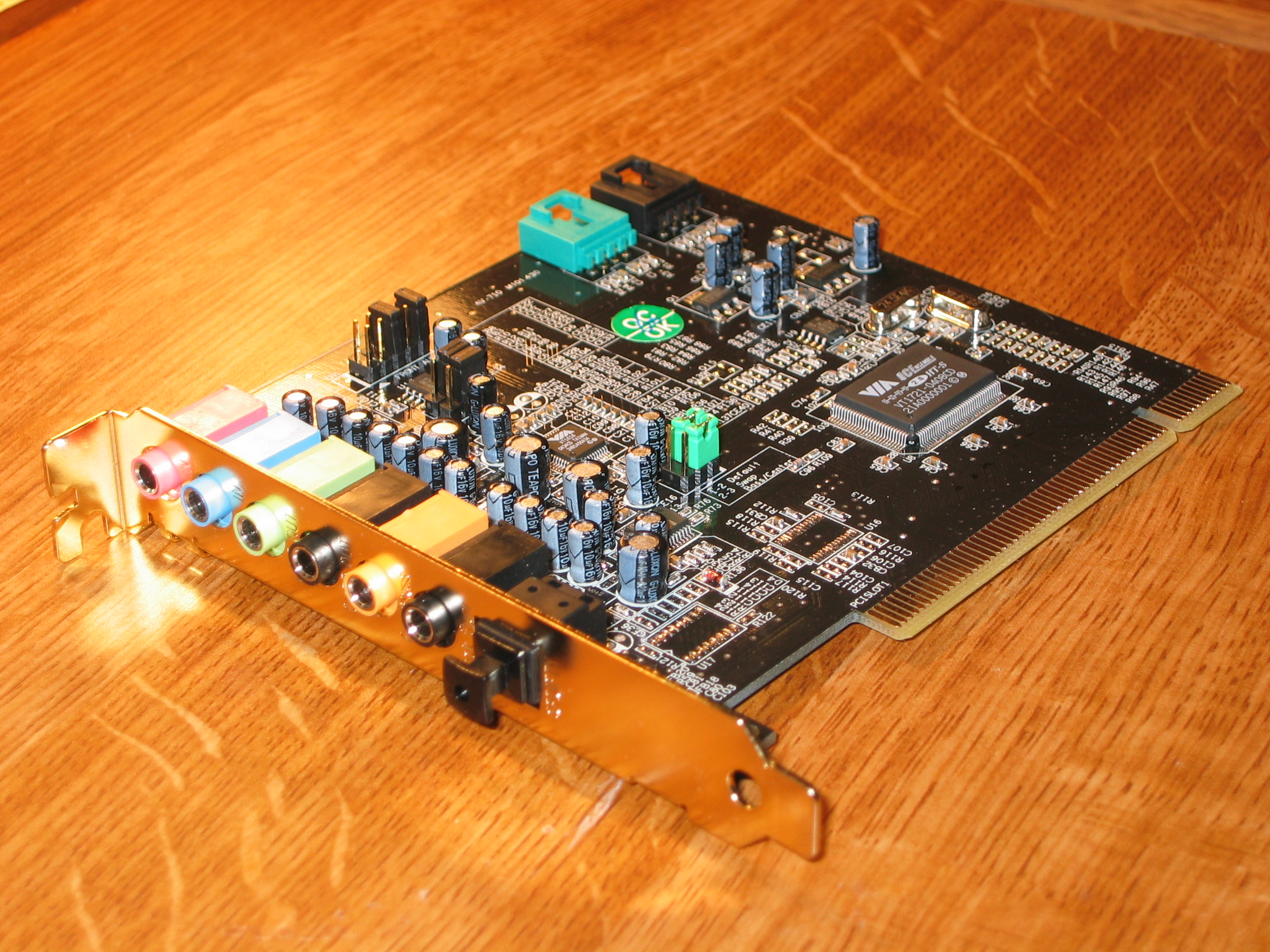 A Chaintech AV-710 sound card, based on the VIA Envy chipset. 1. Mic In 2. Line In 3. Stereo Line Out 4. Surround Out 5. Center/Bass Out 6. Alt Out (better dac, but only 2.1) 7. Optical Out